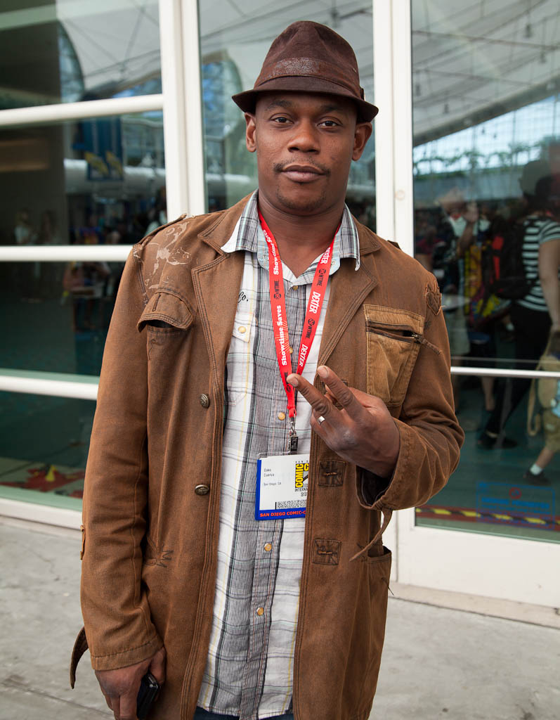 Bokeem Woodbine.